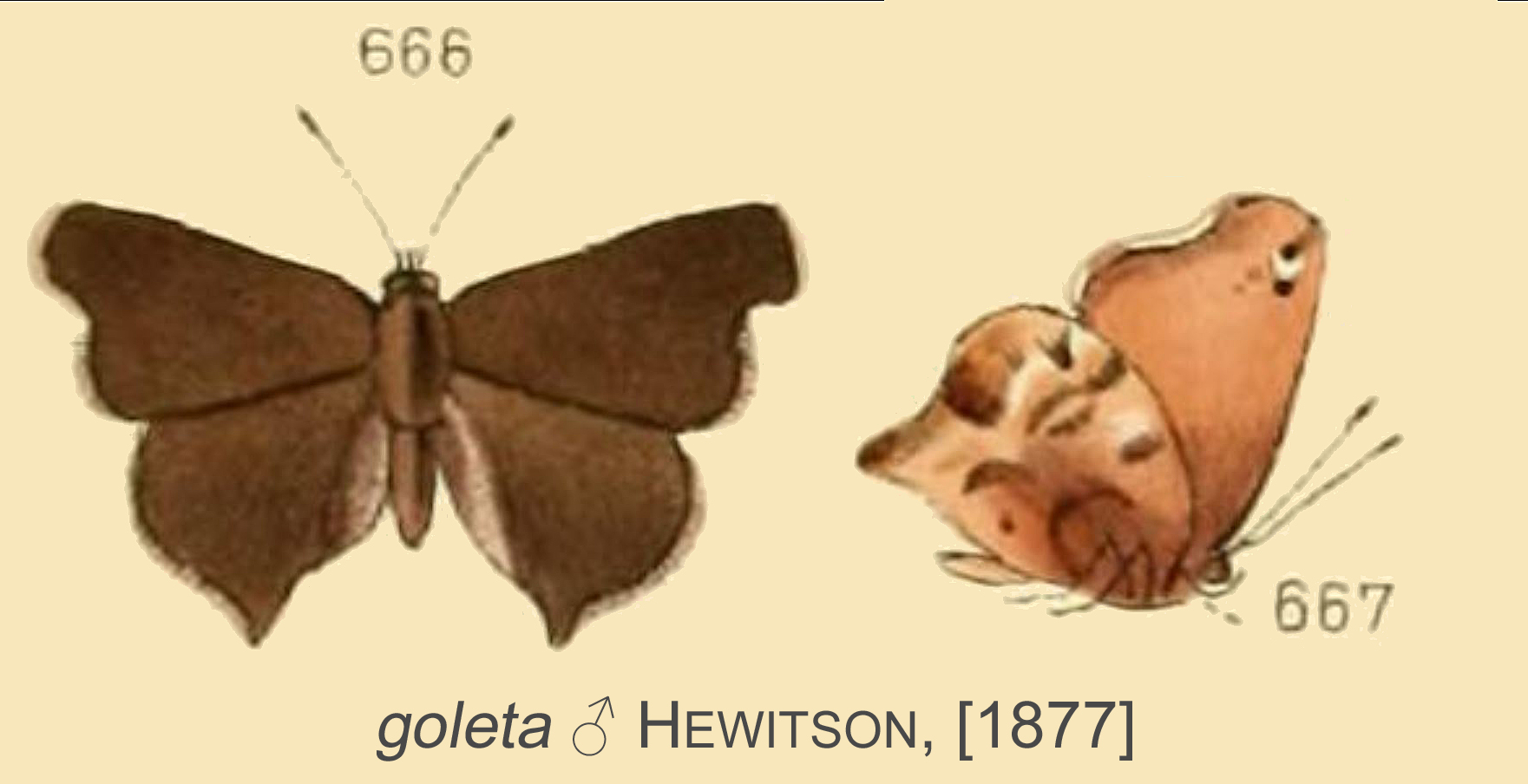 Thecla goleta from original description.